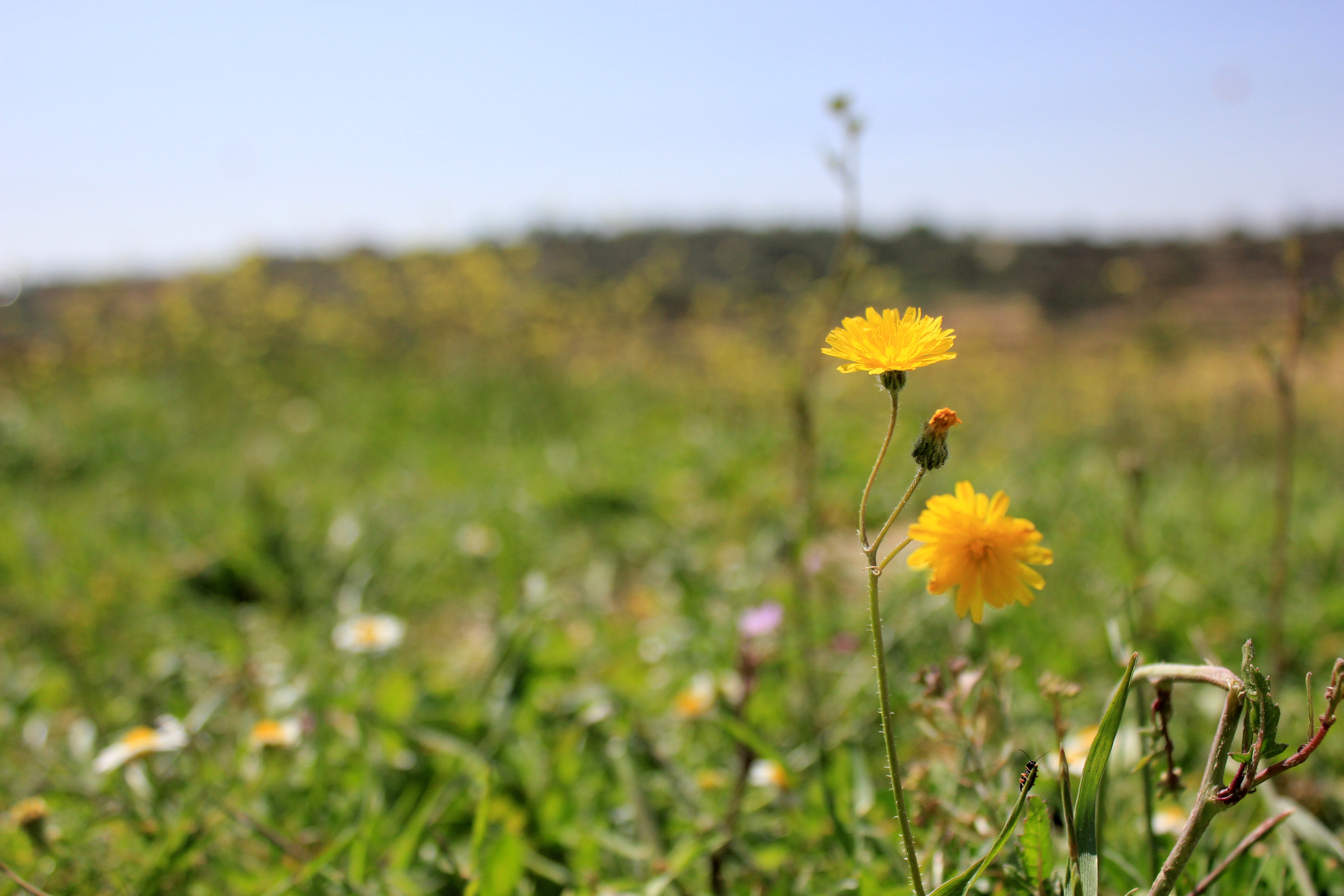 IMG_9068 Flora of Israel